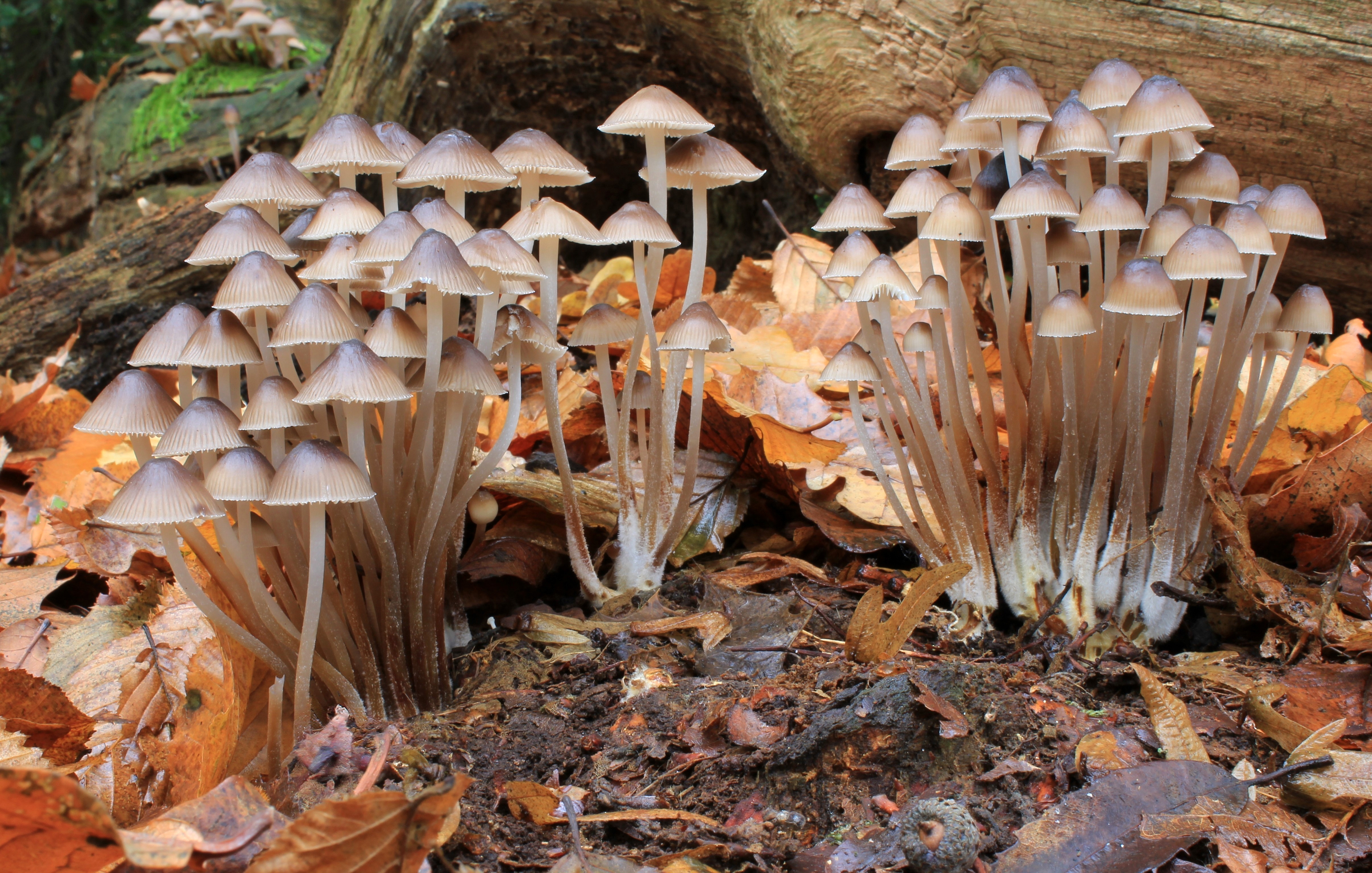 Mycena inclinata, Clustered Bonnet, taken in Trent Park, Enfield, UK.